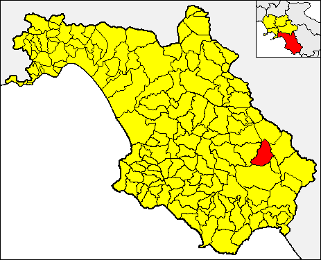 Locator map of the municipality of Sassano (red) within the Province of Salerno